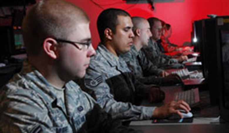 Imagery analysts in the 30th Intelligence Squadron examine unclassified images provided through the Air Force Distributed Common Ground System weapon system. They work in the Distributed Ground Station-1 located at Joint Base Langley-Eustis, Va. Air Force Reserve Command stood up the 718th IS on June 7, 2011. Reservists in the unit will integrate with the Regular Air Force's 497th Intelligence Surveillance and Reconnaissance Group in support of DGS-1 at Langley. (U.S. Air Force photo/Boyd Belcher)